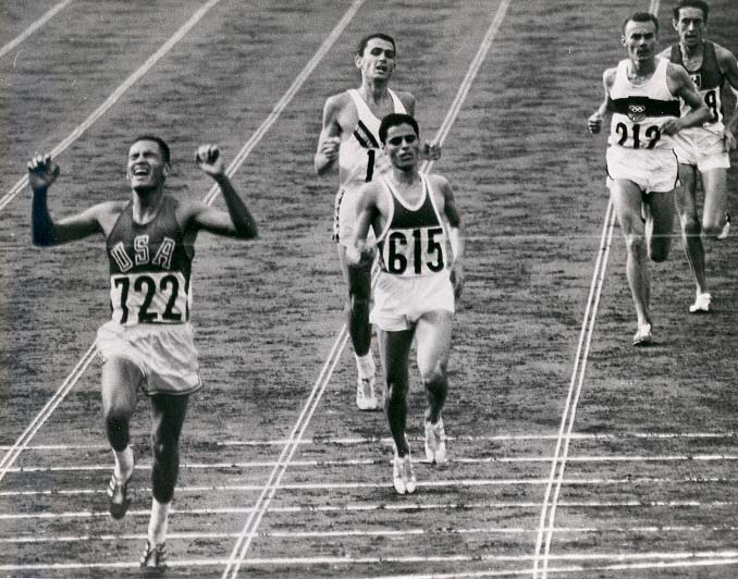 Billy Mills winning the 10,000m in the 1964 Olympics: 1stLt William “Billy” Mills, USMCR (No. 722),[1] wove through a field of lapped runners and passed the race favorite, Ron Clarke (No. 12, "1" visible on shirt)[1] of Australia, to win the 10,000 meters race at the 1964 Olympic Games. His victory is described as one of the greatest upsets in Olympic history and he is still the only American to ever win a gold medal in that event. Mohammed Gammoudi (615)[1] won the silver medal.